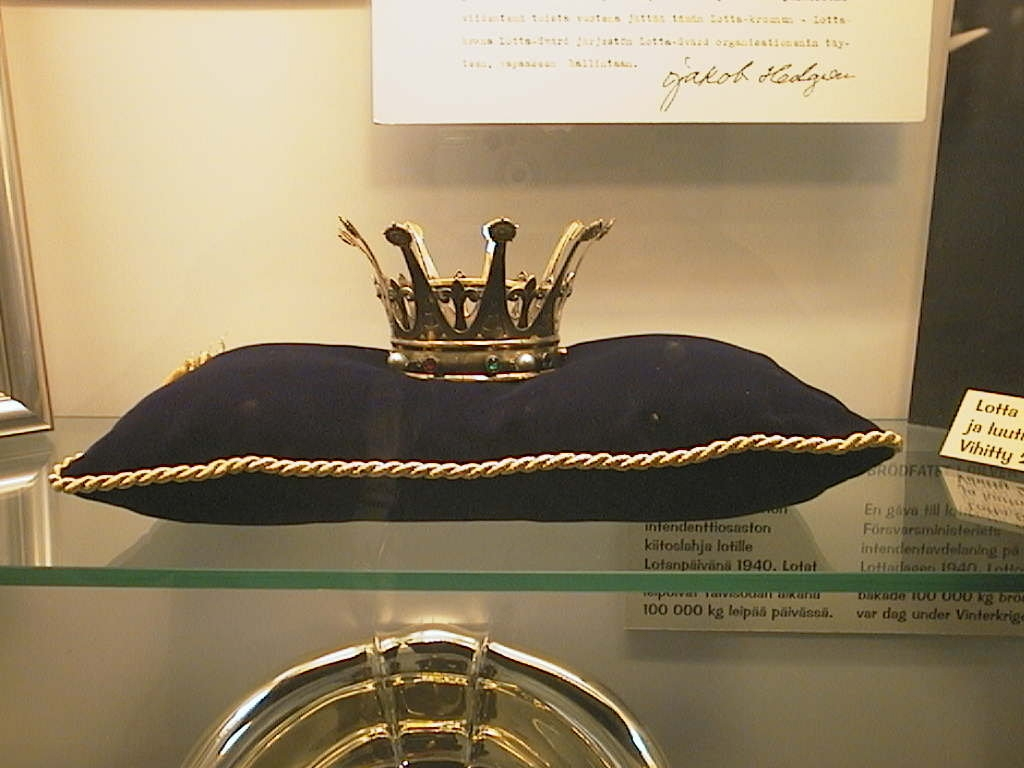 A wedding crown